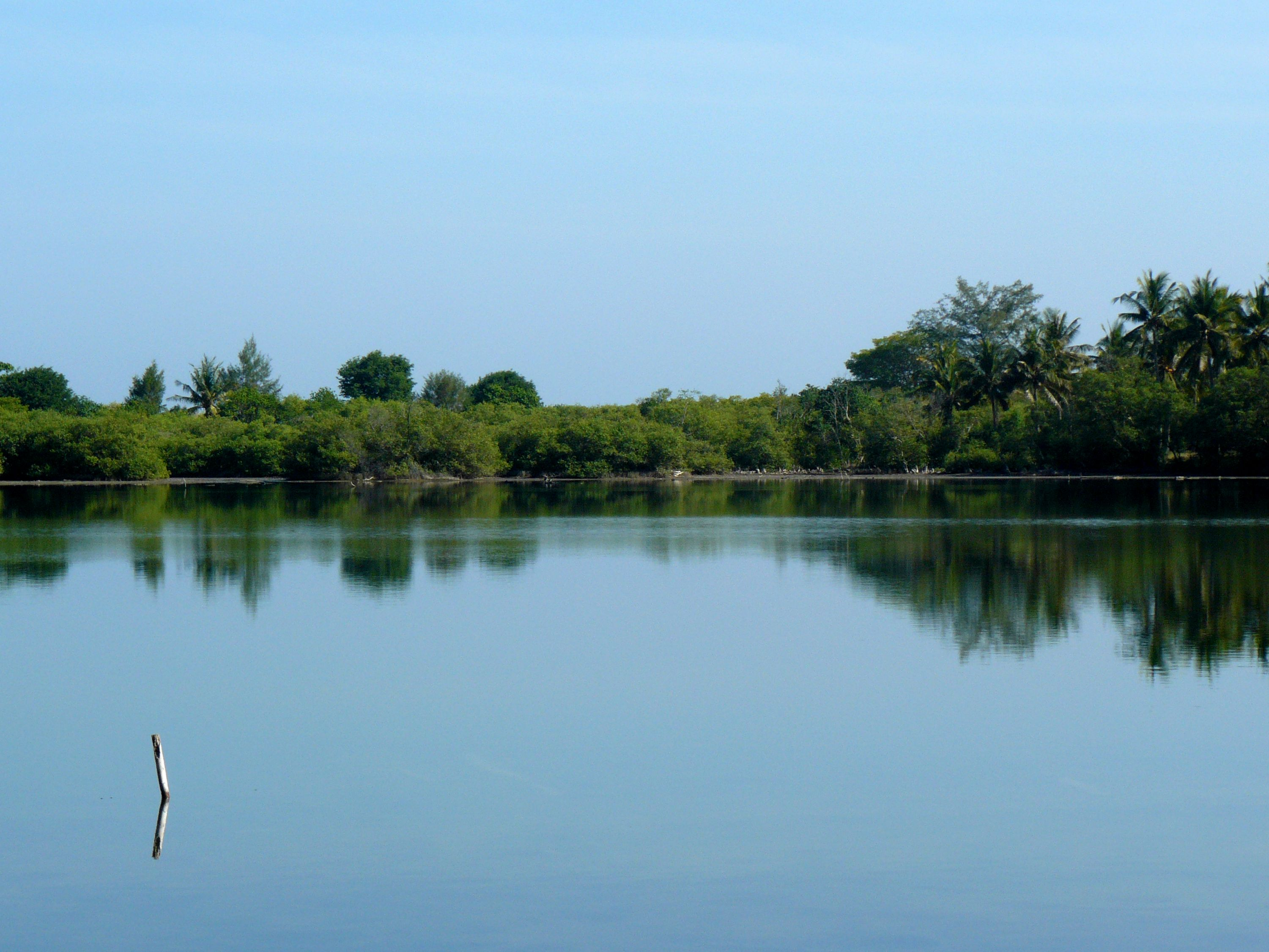 Salt Lake, Gili Meno, Indonesia